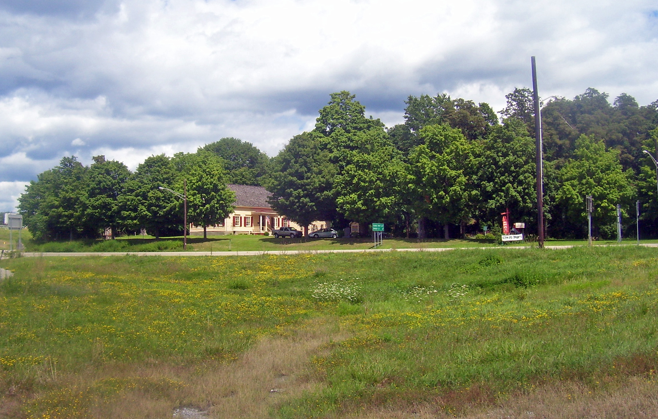 Wide view of the Van Wyck Homestead from I-84 offramp to US 9 in Fishkill, NY, USA, showing some of the area separately listed on the National Register of Historic Places as the Fishkill Supply Depot Site.